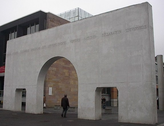 Entrance to the Way of Human Rights, Nuremberg.